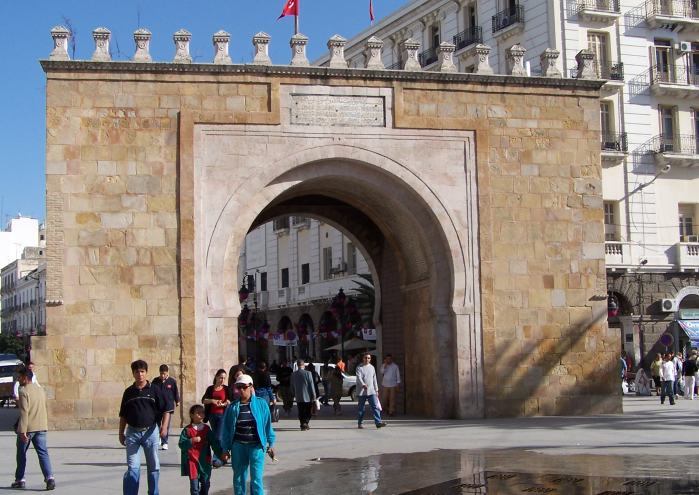 (c) 2005, Niels Elgaard Larsen Port de France, Tunis.